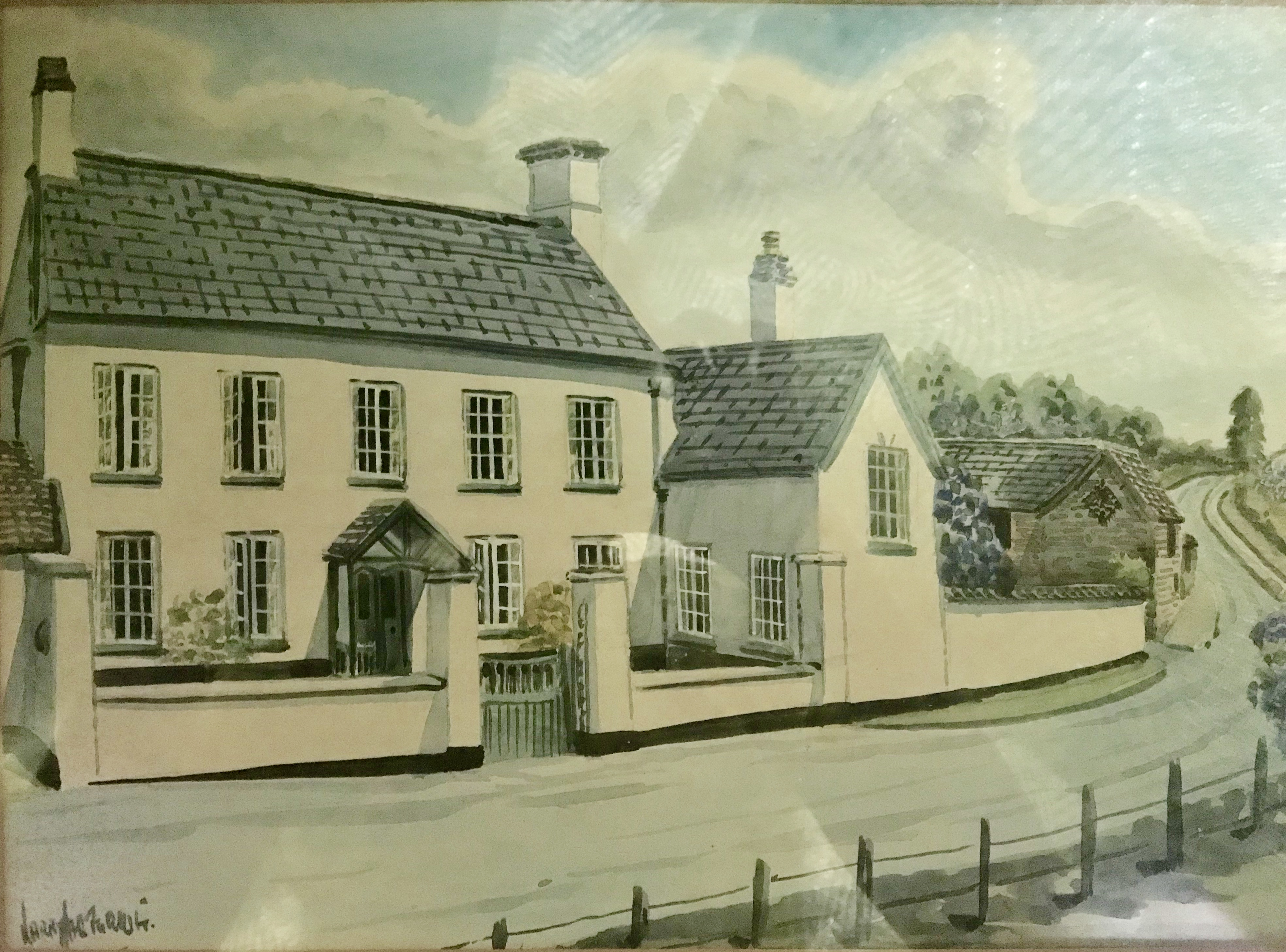 Painting of gulliford